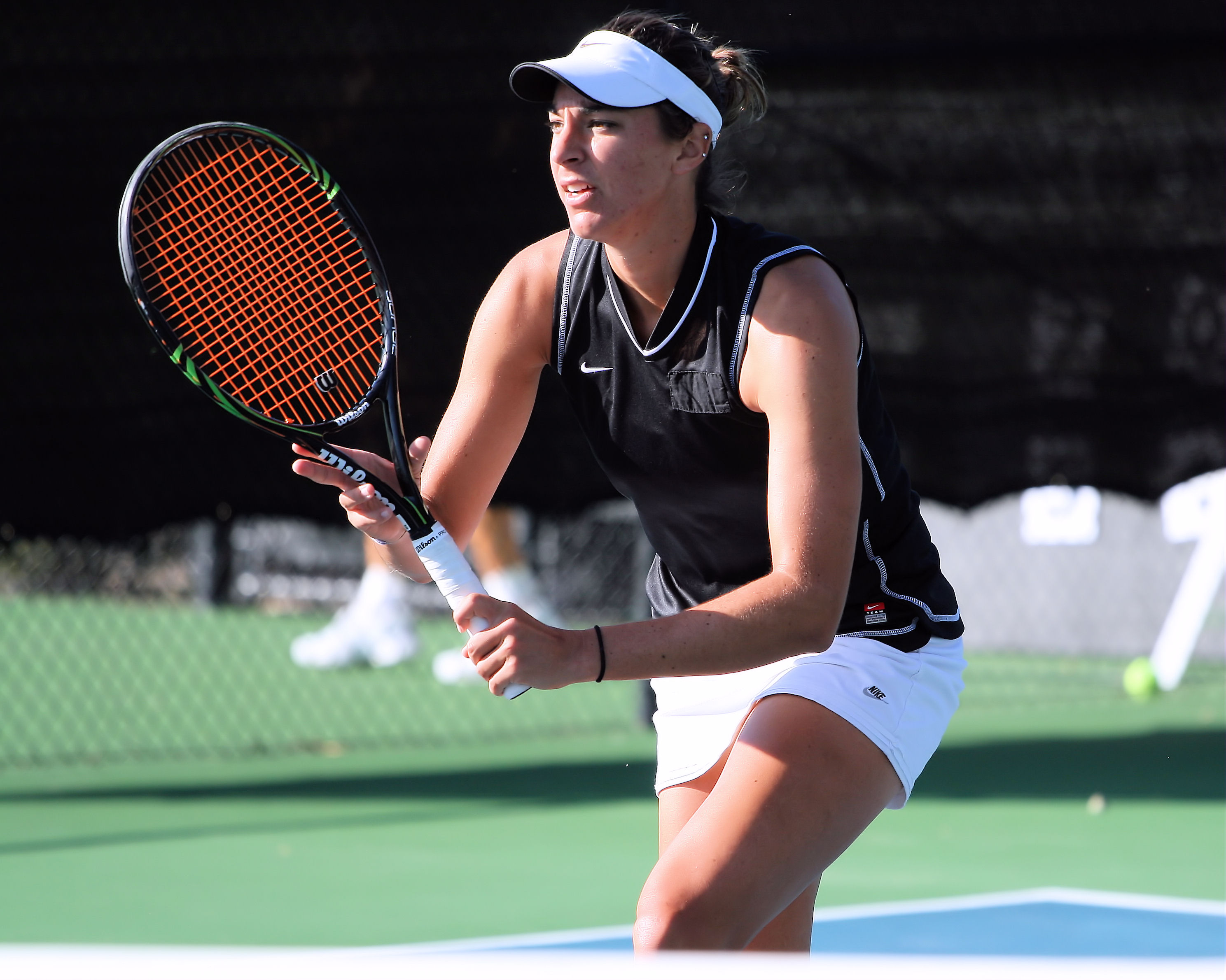 Macall Harkins playing in 2010